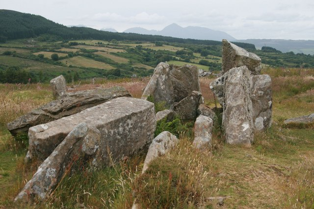 Giants' Graves, near Whiting Bay, Isle of Arran